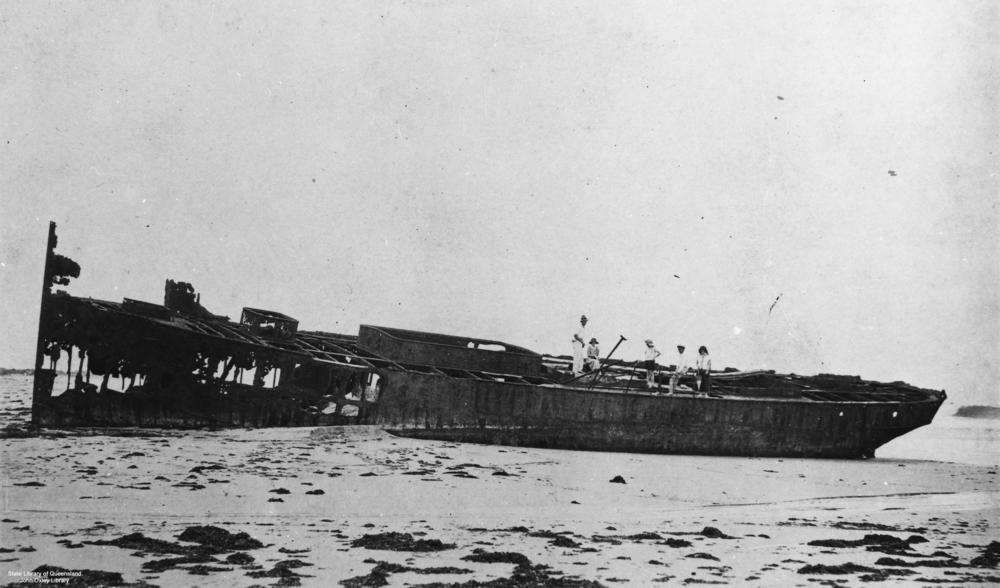 Wreck of the ship Dicky in 1925. She was wrecked on the beach at Caloundra, Queensland in 1893.